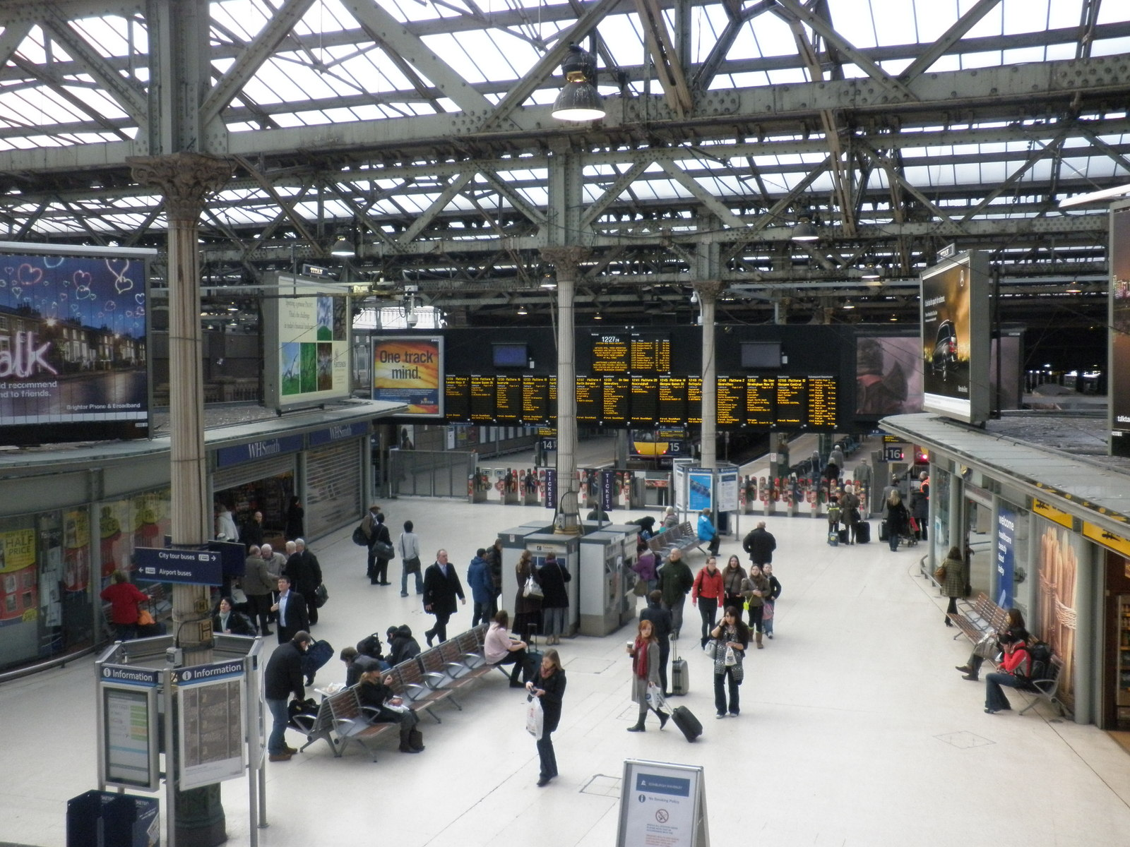 Station concourse, Edinburgh Waverley